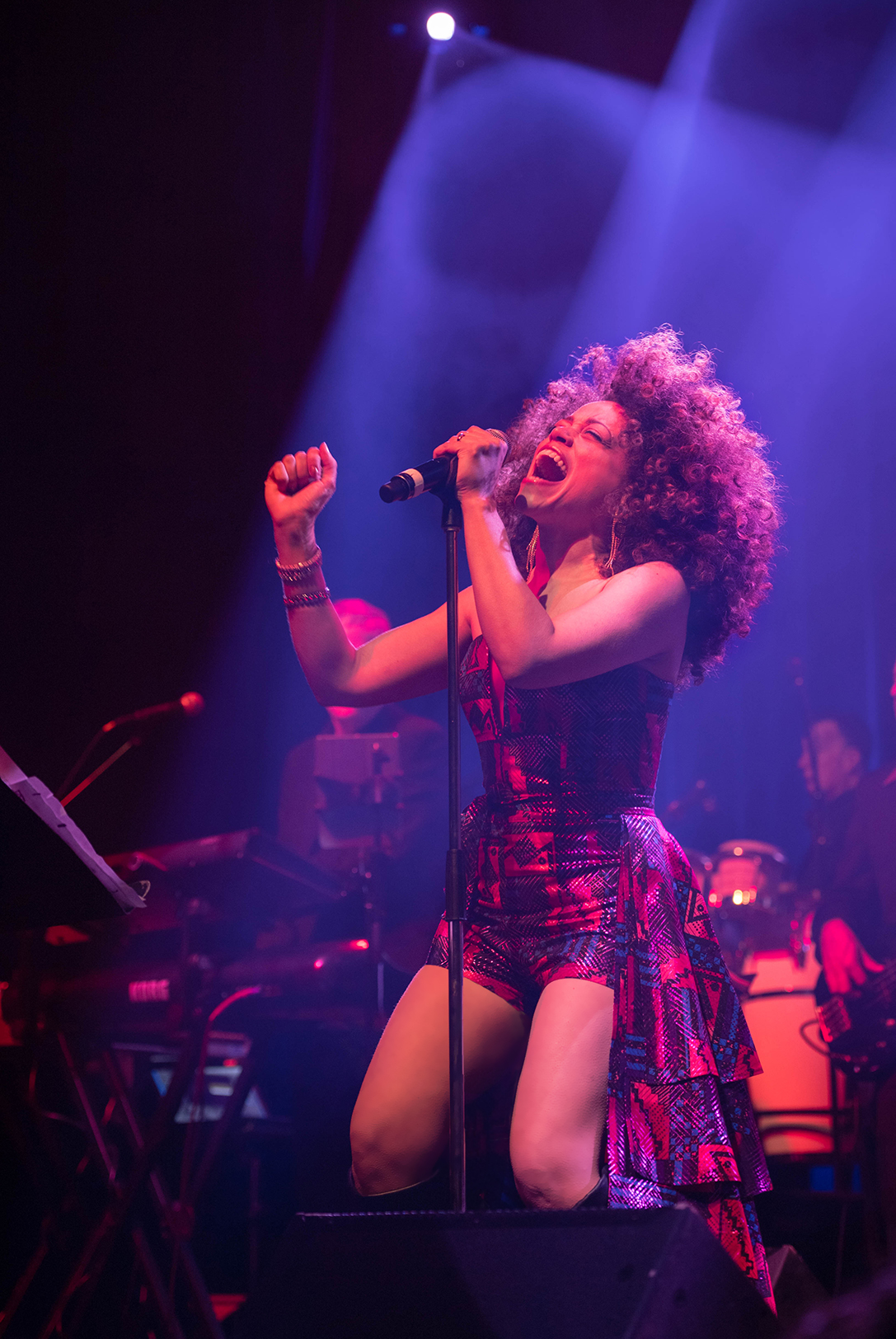 Marcy Harriell performs Prince's "I Wanna Be Your Lover" at the 2019 Montclair Film Festival. Photograph by Neil Grabowsky